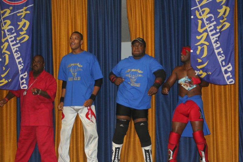 Professional wrestling alliance Da Soul Touchaz at a Chikara event.